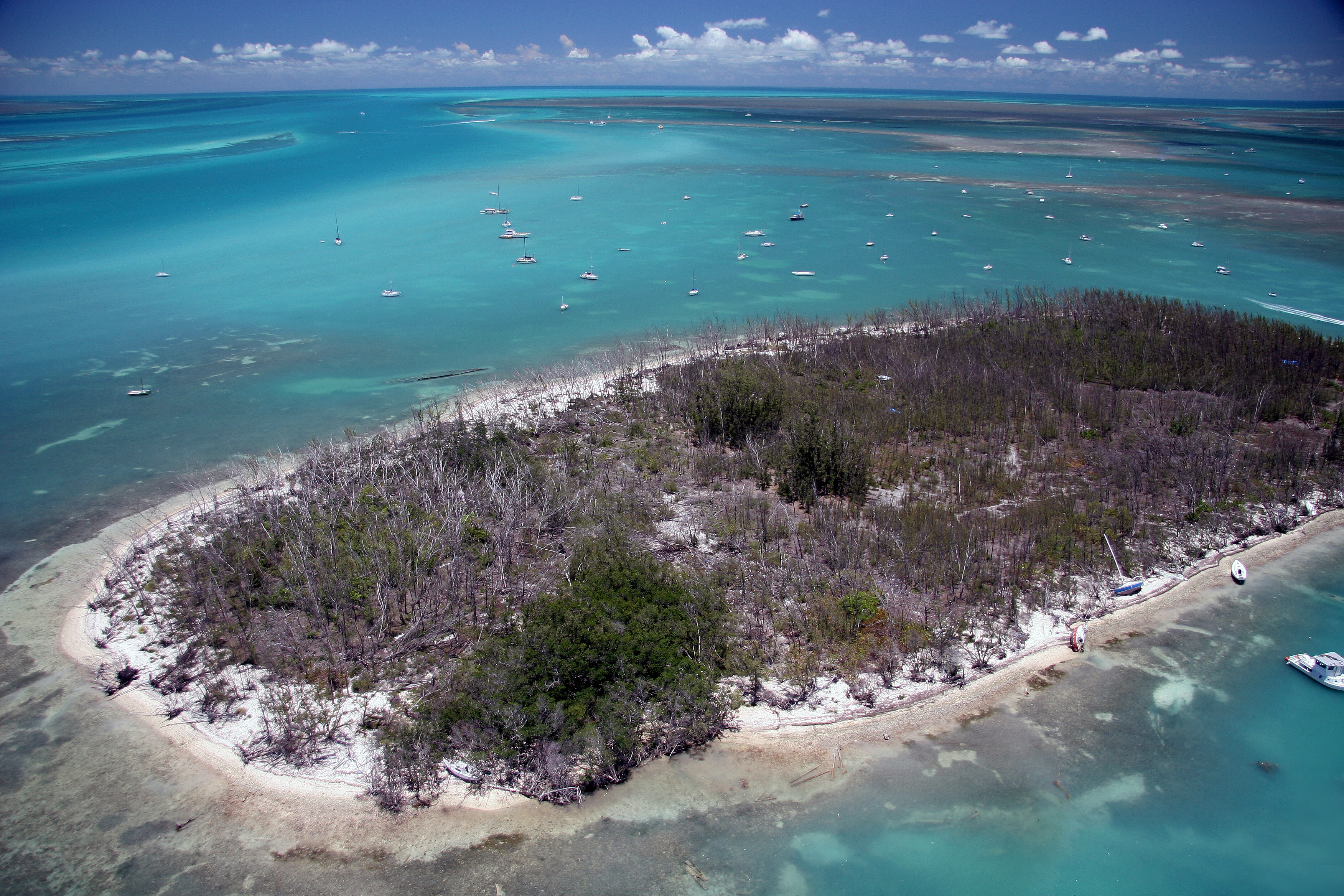 Wisteria Island, also known as Christmas Tree Island, on June 9, 2006. Dale McDonald Collection.